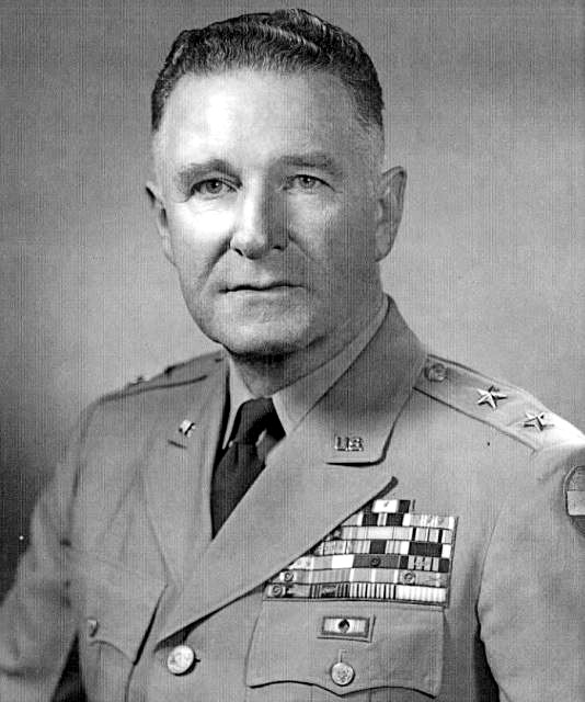 Cornelius Edward Ryan (May 12, 1896 - June 6, 1972) was a highly decorated officer in the United States Army with the rank of Major General. During his 40 years of active service, he participated in both World Wars and Korean War and held several imporant assignments including commands of 101st Airborne Division, Berlin Occupation Sector or as Chief of Korean Military Advisory Group.